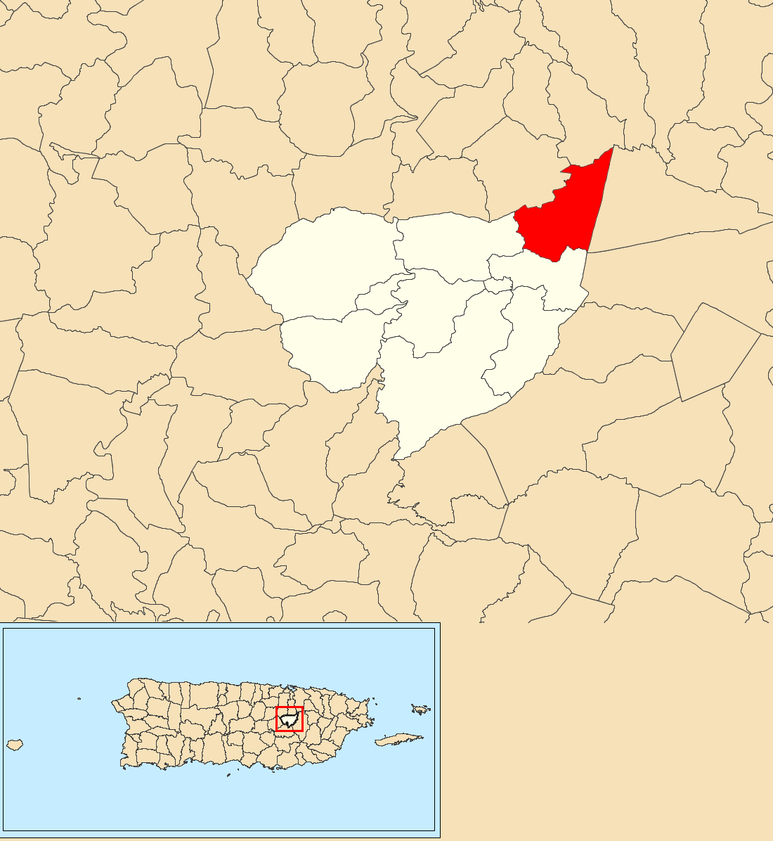 Jagüeyes, Aguas Buenas, Puerto Rico locator map